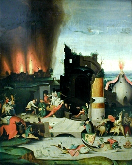 Hieronymus Bosch The Temptation of Saint Anthony, (tempera on panel,52x39cm National Museum of Serbia Other information Located in National Museum of Serbia,Belgrade, inv. no 010-034-00167-000--C